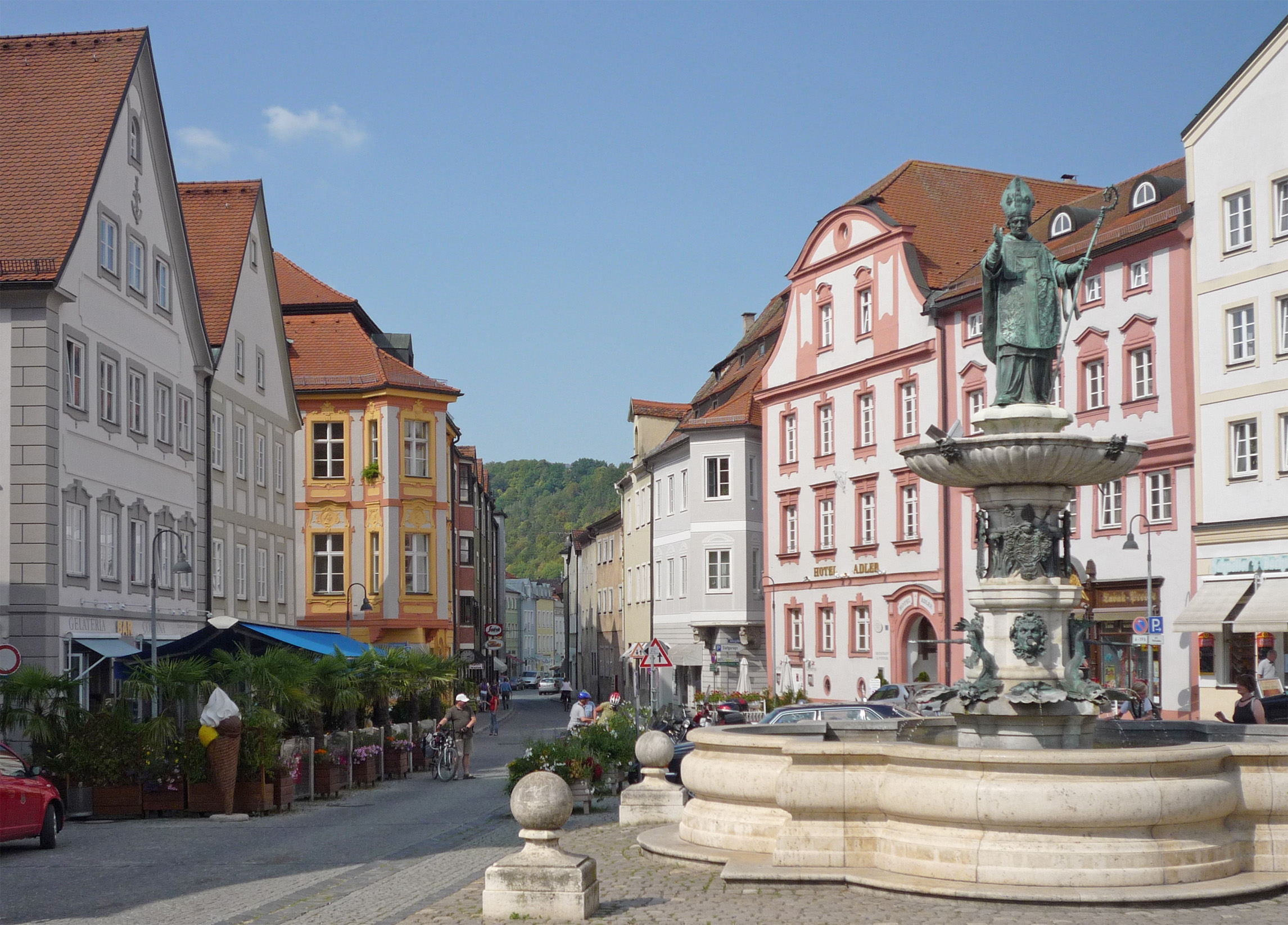 Eichstätt, market place with font Willibaldsbrunnnen